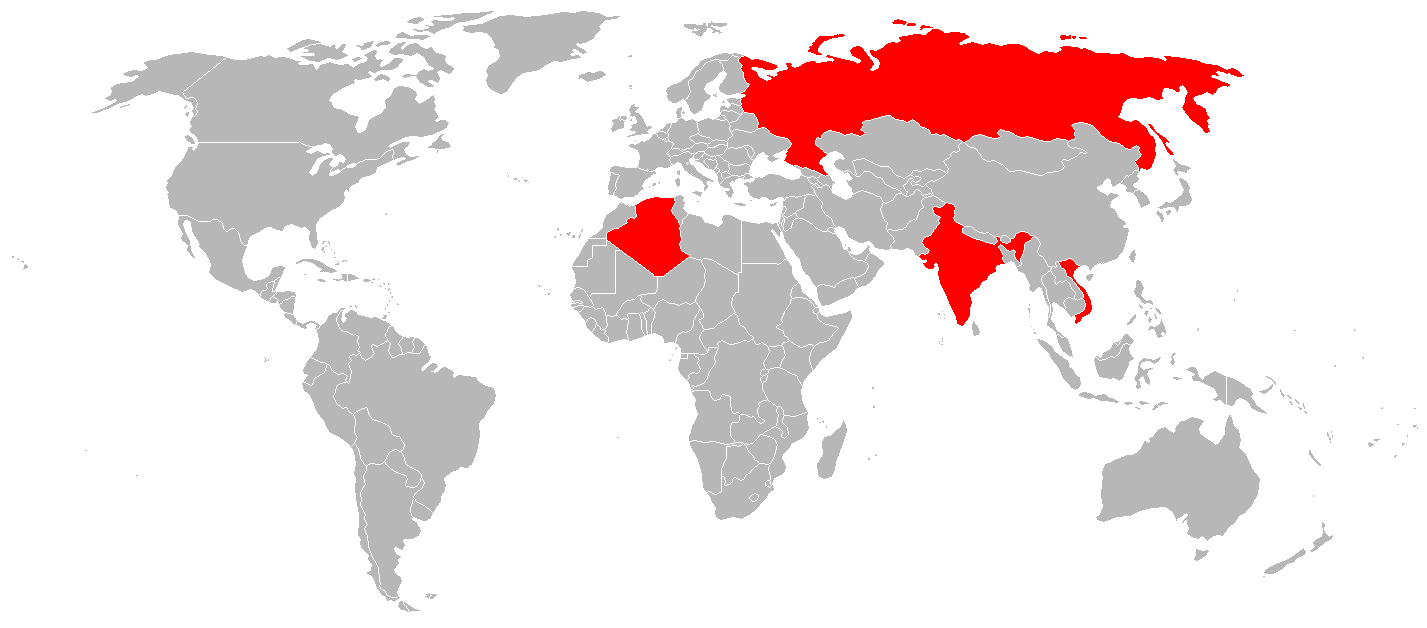 World operators of the Kh-35 map